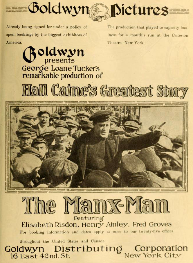 American advertisement in Moving Picture World for the British film The Manxman (1916) with Henry Ainley.